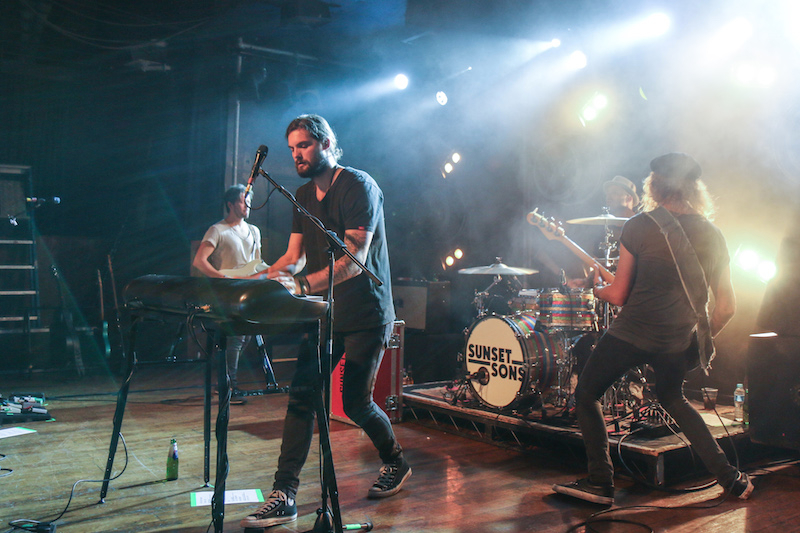 Sunset Sons Live at Scala (photo credit:Filippo L'Astorina)